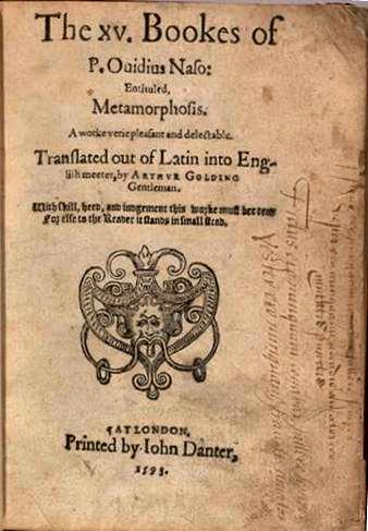 The 15 Books of Ovid's MetamorphosisTranslated by Arthur Golding, printed by John Danter